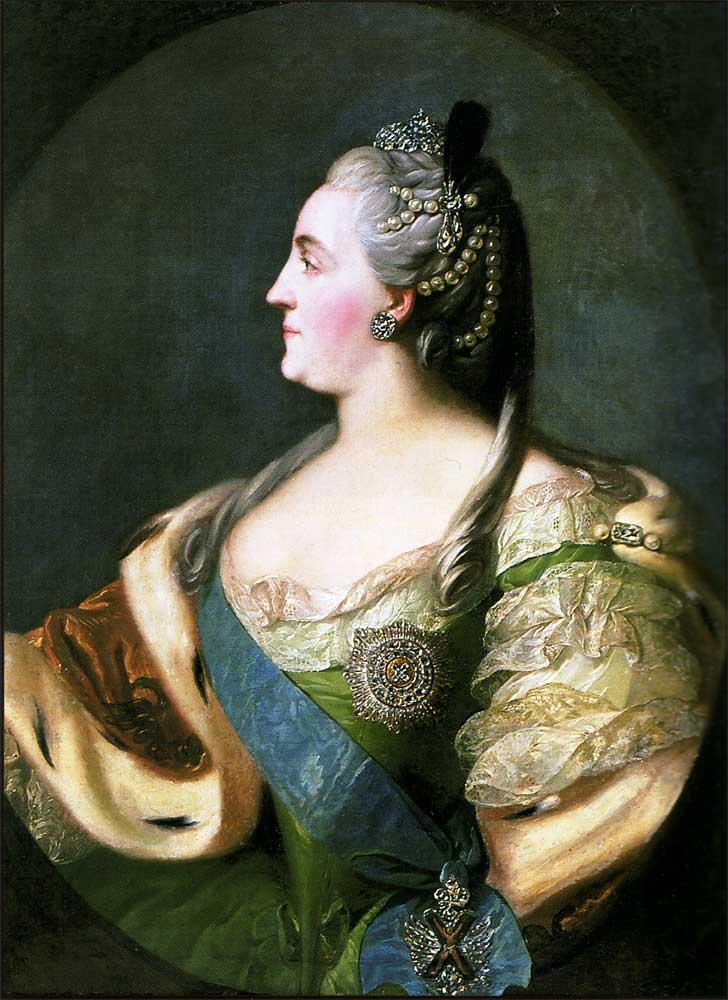 Portrait of Catherine II the Great (1729-1796)label QS:Len,"Portrait of Catherine II the Great (1729-1796)" label QS:Lde,"Katharina II. die Große (1729-1796) Zarin von Russland"